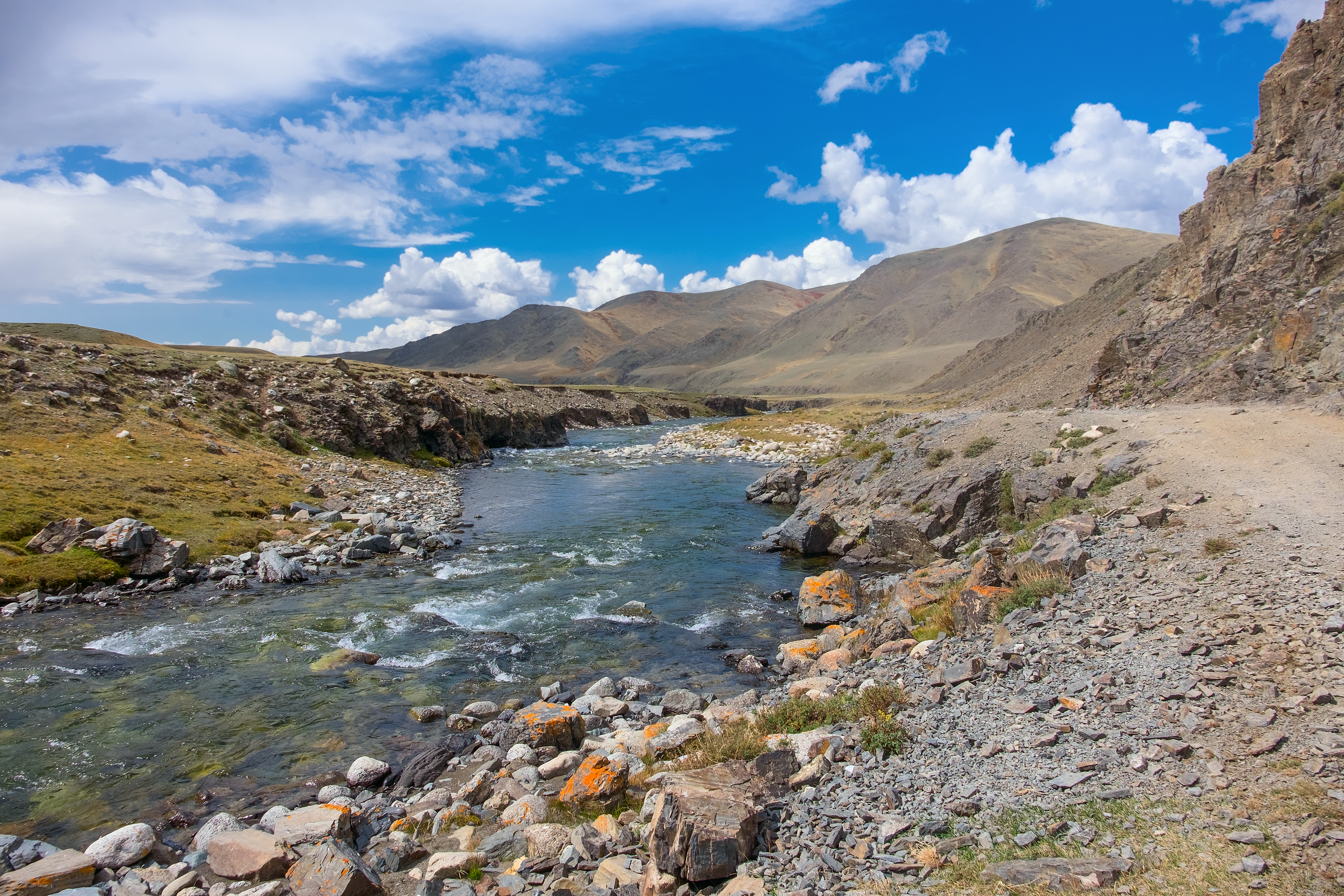 Karagay River in the Altai Mountains